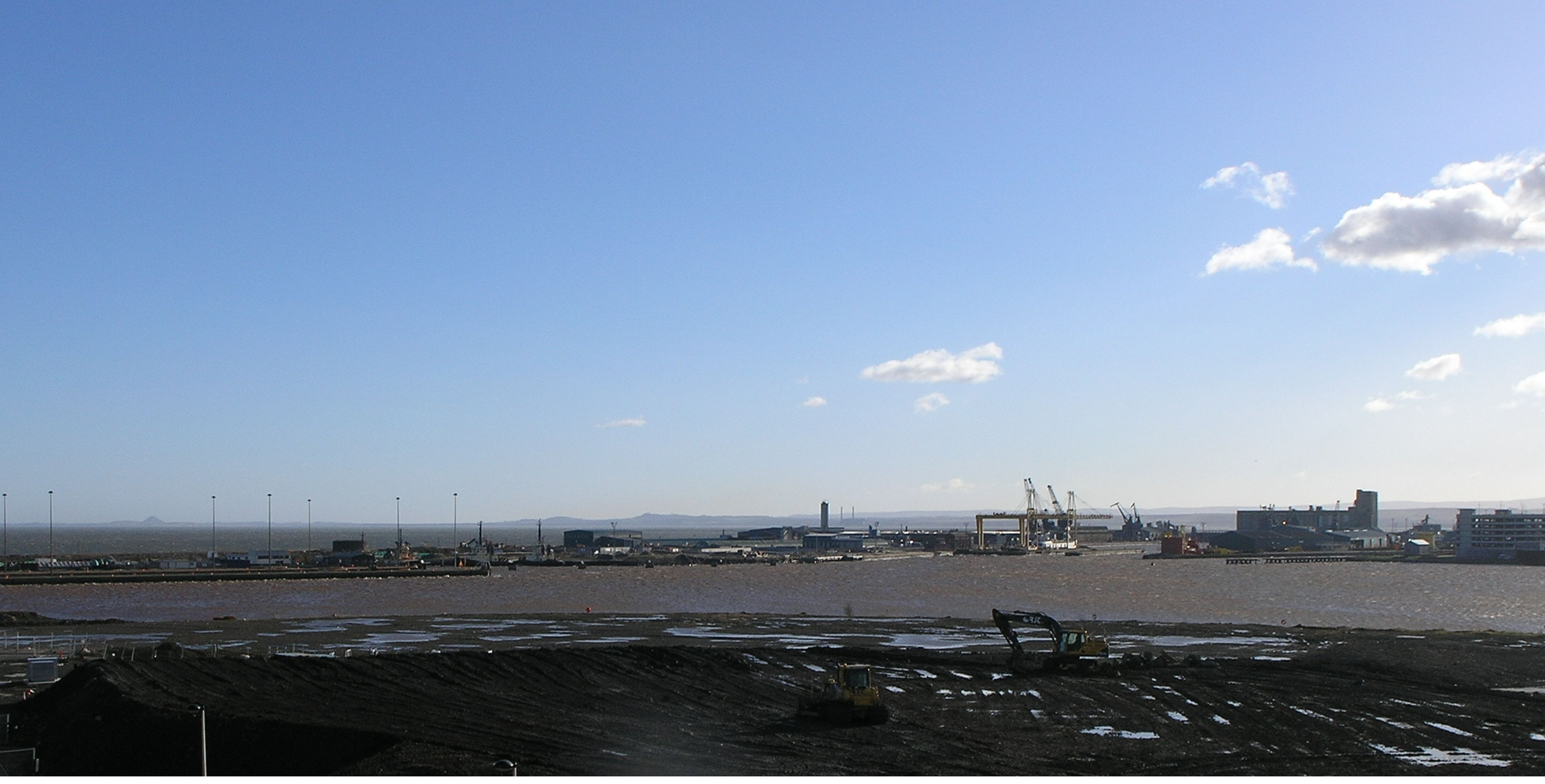 Leith docks, western harbour, refilled dock.